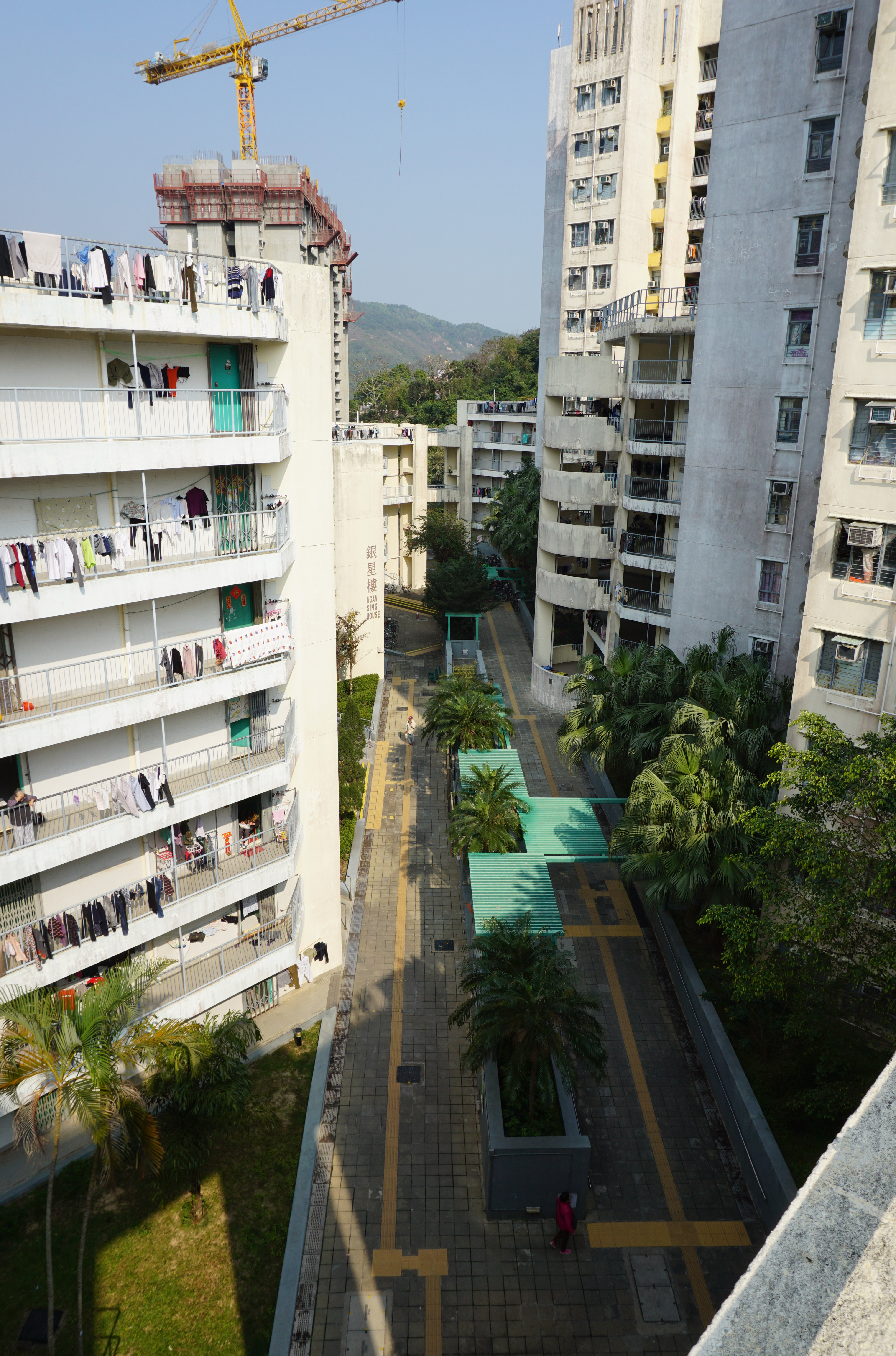 Ngan Wan Estate in Mui Wo, Hong Kong.